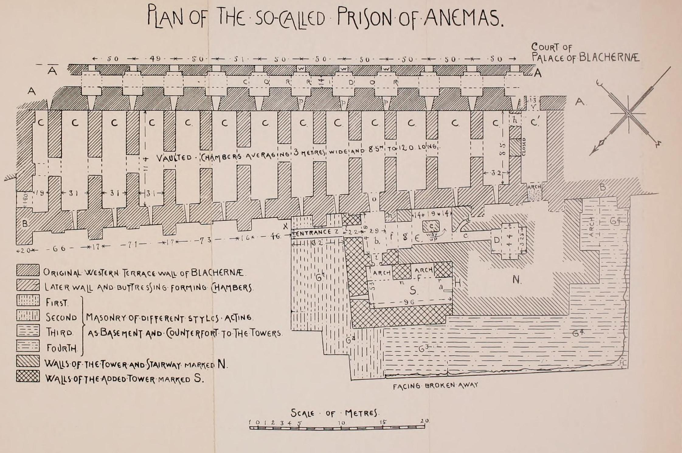 Plan of the so-called "Prison of Anemas", in the Blachernae section of the Walls of Constantinople, modern Istanbul, Turkey.